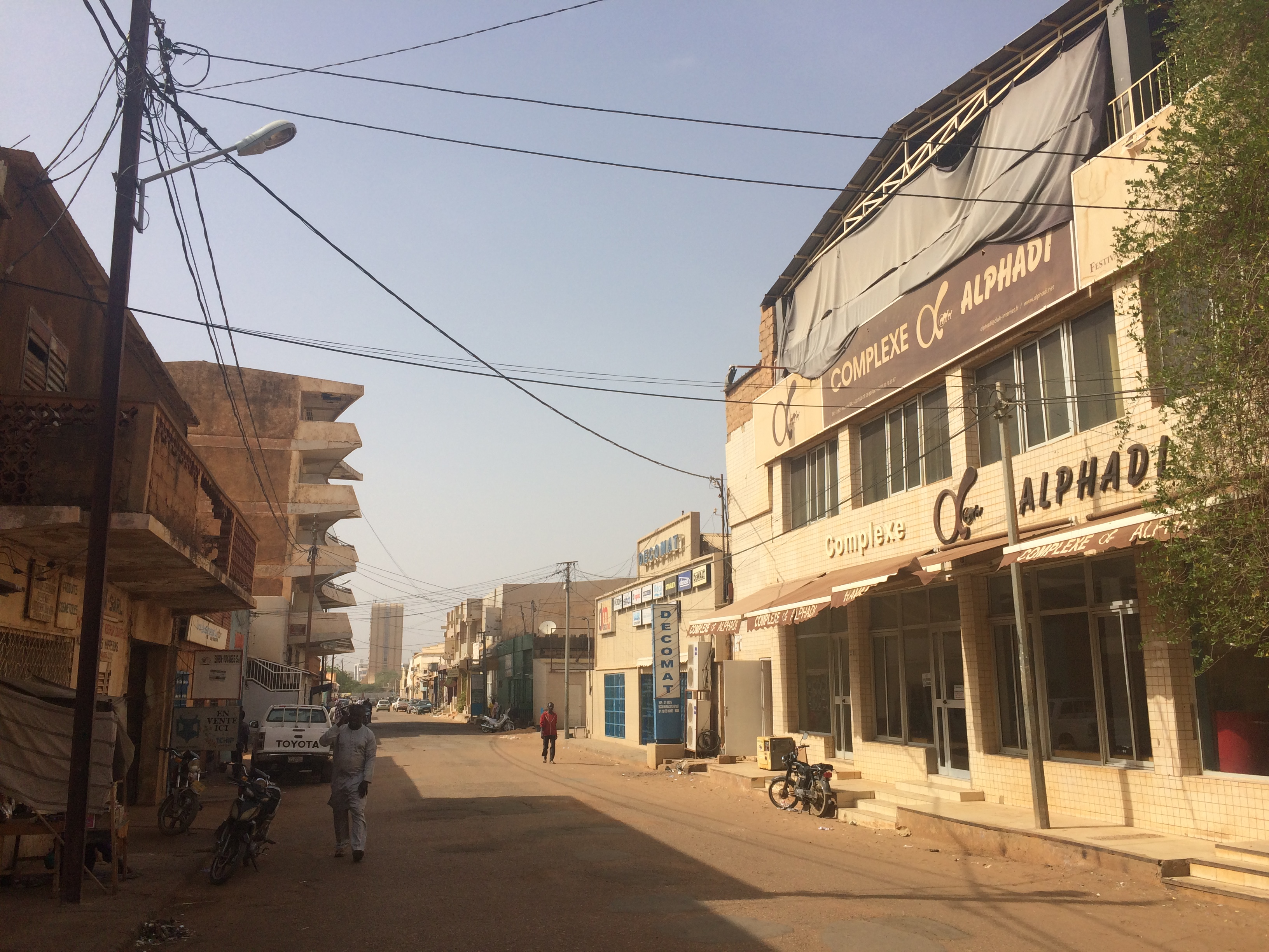 Rue NB-18 in Niamey, Niger (Niamey Bas, Petit Marché neighborhood)